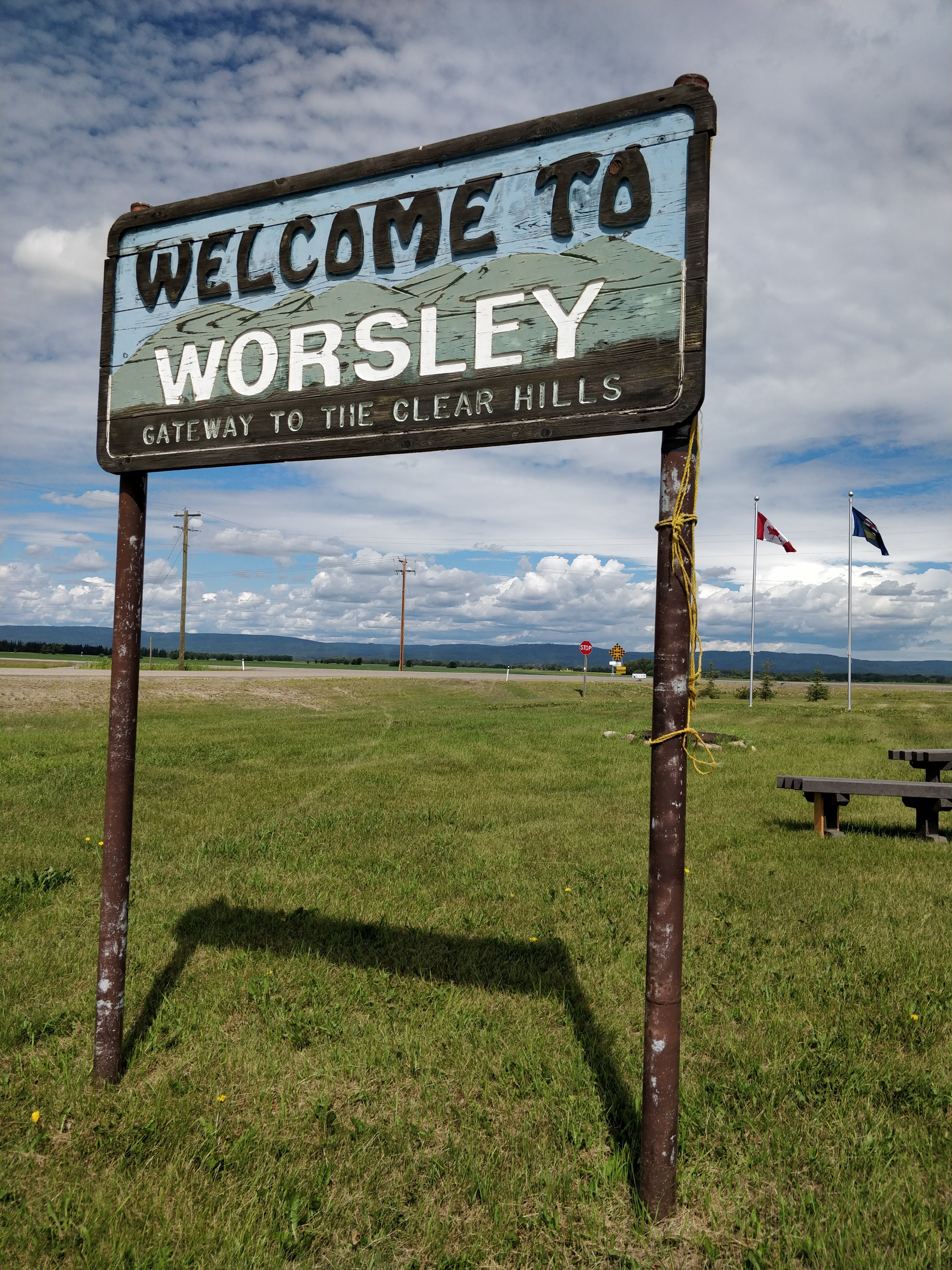 Welcome sign in Worsley, Alberta, a hamlet administered by Clear Hills County. The Clear Hills themselves rise in the background.